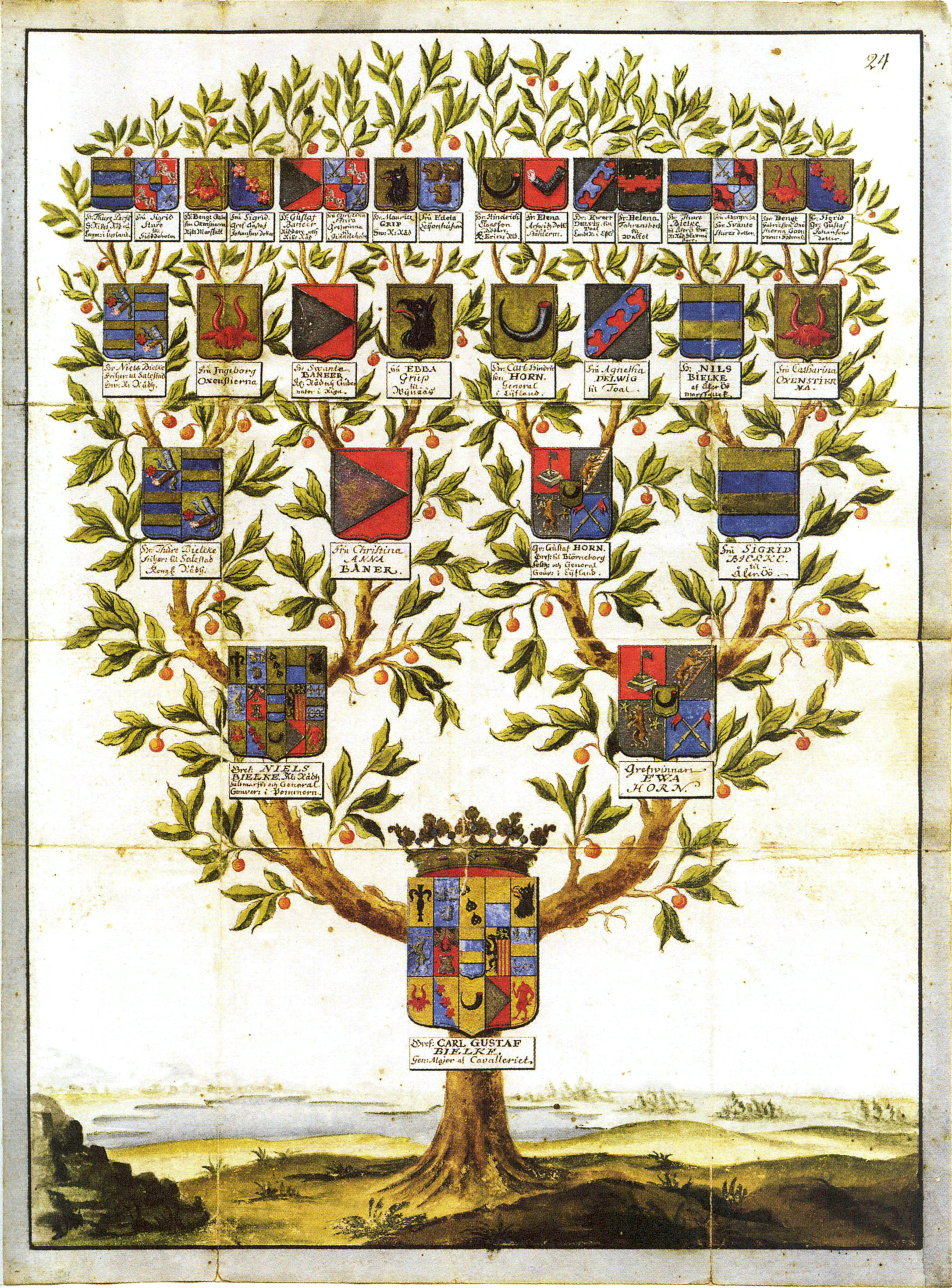 Family Tree of Carl Gustav Bielke, showing his relationships to the Horn, Banér, Oxenstierna, Grip and other families.